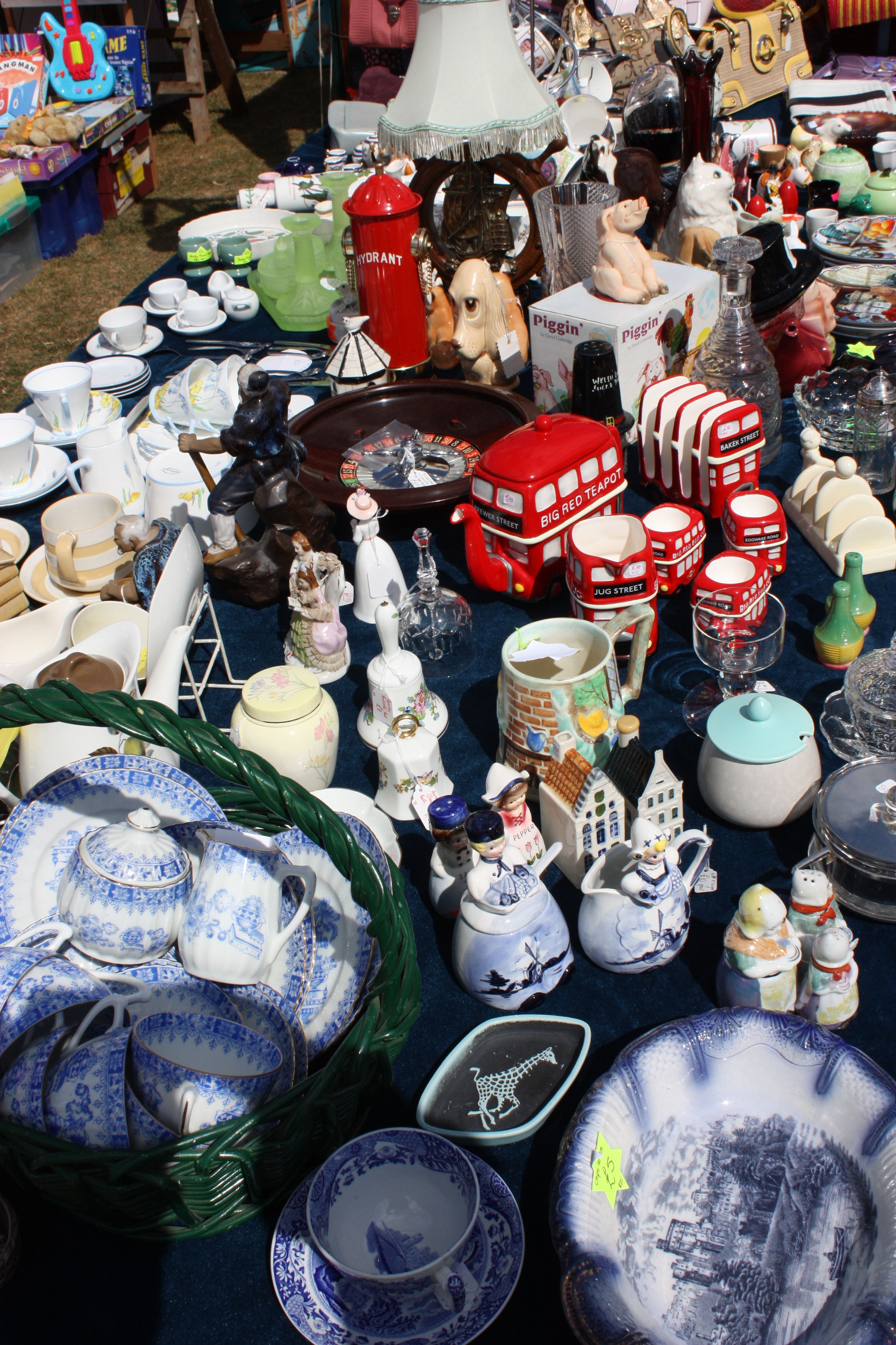 Stall at the Cambridge Big Day Out, Parker's Piece, Cambridge, Cambridgeshire, England, July 2010